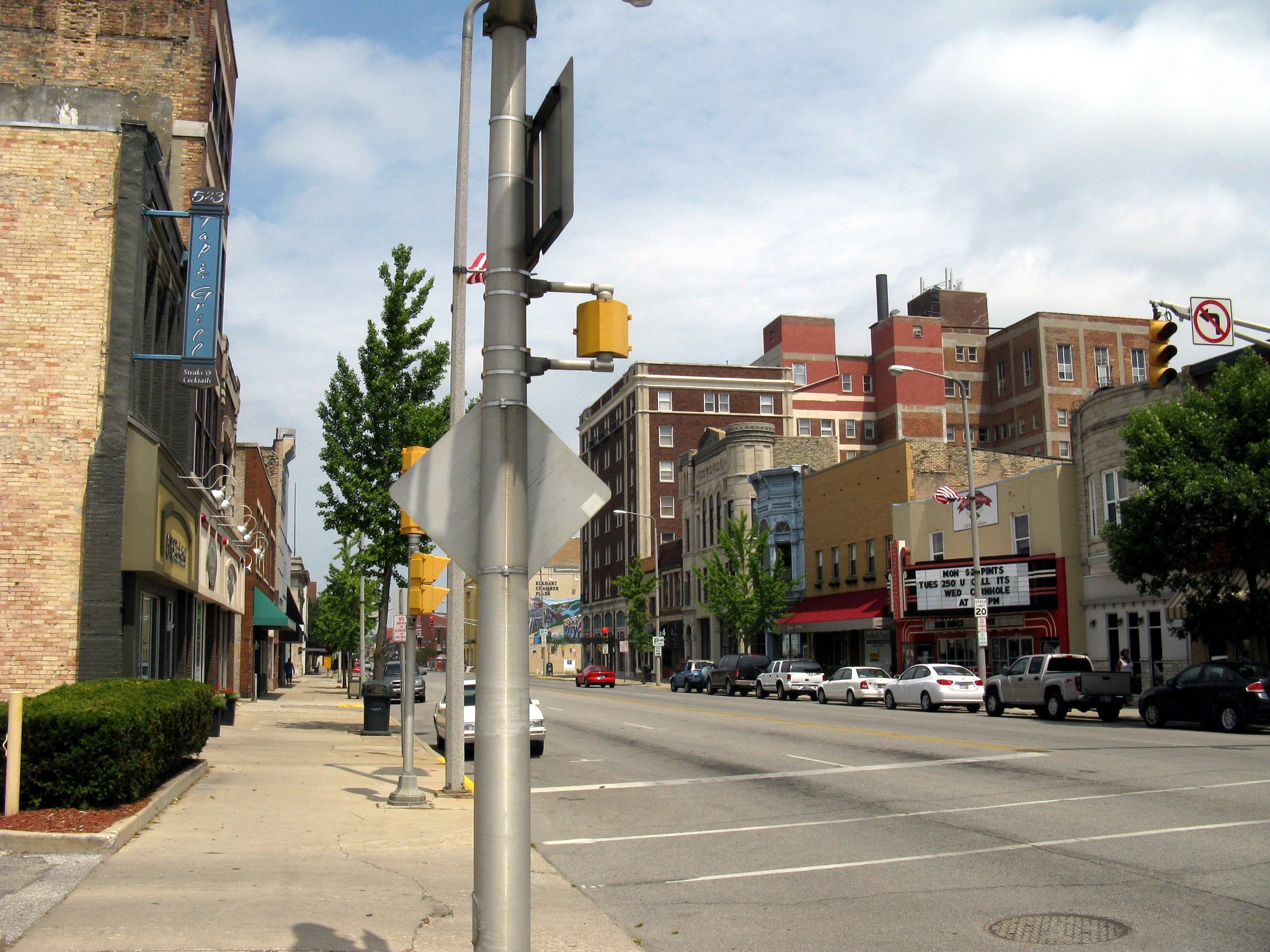 Main Street looking north in Elkhart, Indiana. This area is part of the Elkhart Downtown Commercial Historic District.